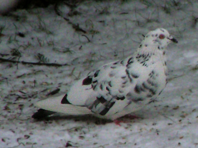 Partially white domesticated Rock Dove